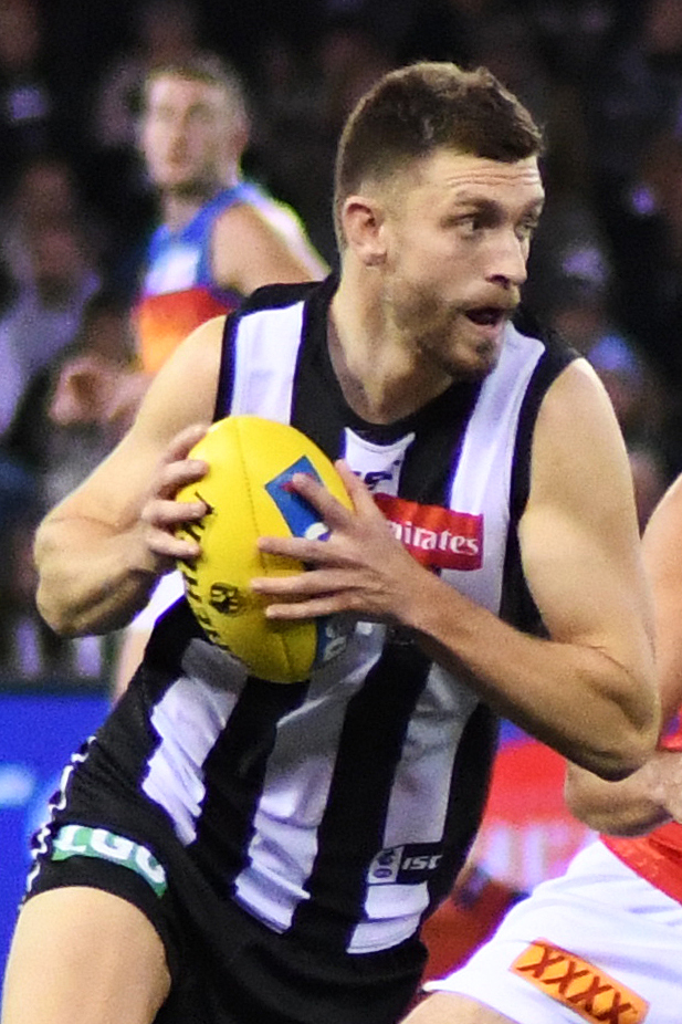 Adam Oxley of Collingwood during the 2018 AFL round 21 match between Collingwood and Brisbane at Etihad Stadium on Saturday, 11 August 2018 in Melbourne, Victoria.